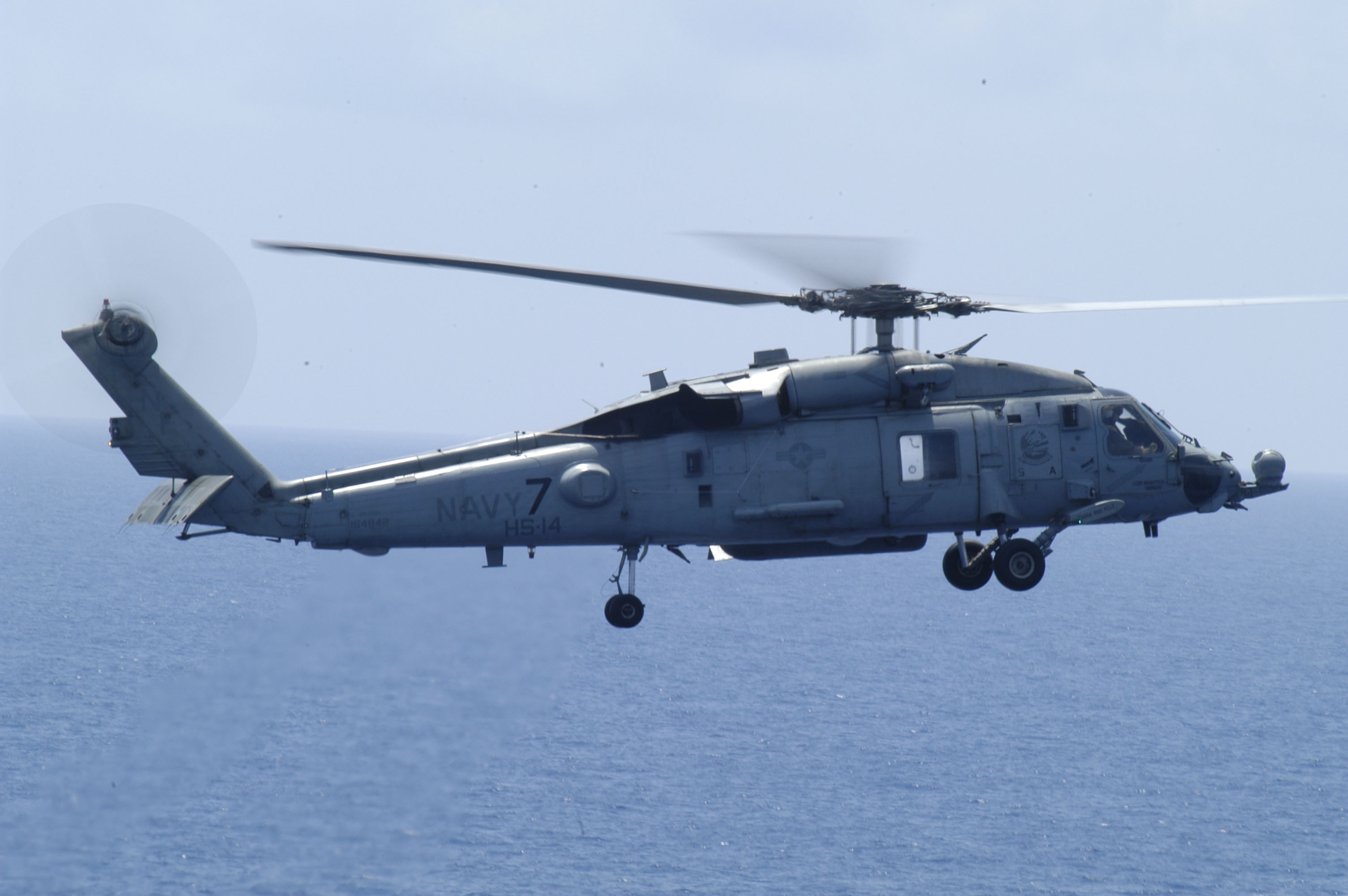 Pacific Ocean (Aug. 15, 2005) - An HH-60H Seahawk, assigned to the "Chargers" of Helicopter Anti-Submarine Squadron Fourteen (HS-14), prepares to land on the flight deck of the conventionally powered aircraft carrier USS Kitty Hawk (CV 63). Currently under way in the 7th Fleet area of responsibility (AOR), Kitty Hawk demonstrates power projection and sea control as the U.S. Navy's only permanently forward-deployed aircraft carrier. U.S. Navy photo by Photographer's Mate Airman Juan King (RELEASED)